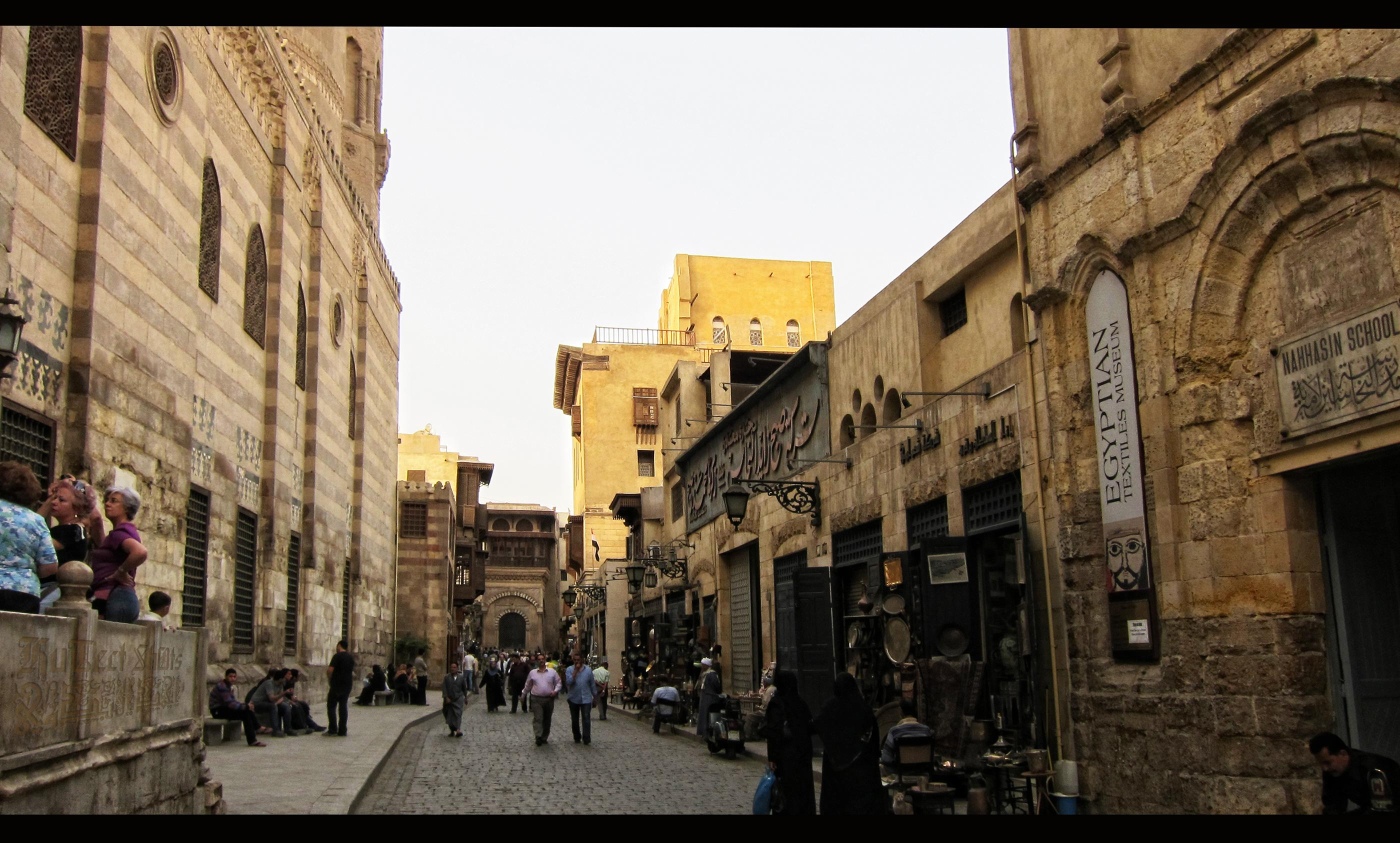 Al-Muizz Street (Shariʕa al-Muizz li-Deen Illah) (30°02′ 48" N 31°15′ 36"E) in Islamic Cairo, Egypt is one of the oldest streets in Cairo, approximately one kilometer long. A United Nations study found it to have the greatest concentration of medieval architectural treasures in the Islamic world.[1] The street (shariʕa in Arabic) is named for Al-Muʢizz li-Deen Illah, the fourth caliph of the Fatimid dynasty. It stretches from Bab Al-Futuh in the north to Bab Zuweila in the south. Starting in 1997[2] [3], the national government carried out extensive renovations to the historical buildings, modern buildings, paving, and sewerage to turn the street into an "open air museum", with work scheduled to be completed in October 2008. On April 24, 2008, Al-Muizz Street was rededicated as a pedestrian only zone between 8:00 am and 11:00 pm; cargo traffic will be allowed outside of these hours. More.